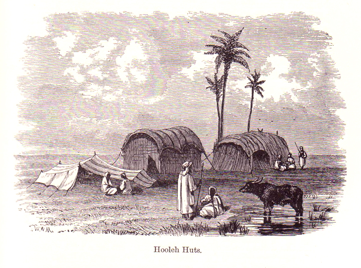 Hulah buildings January 1869